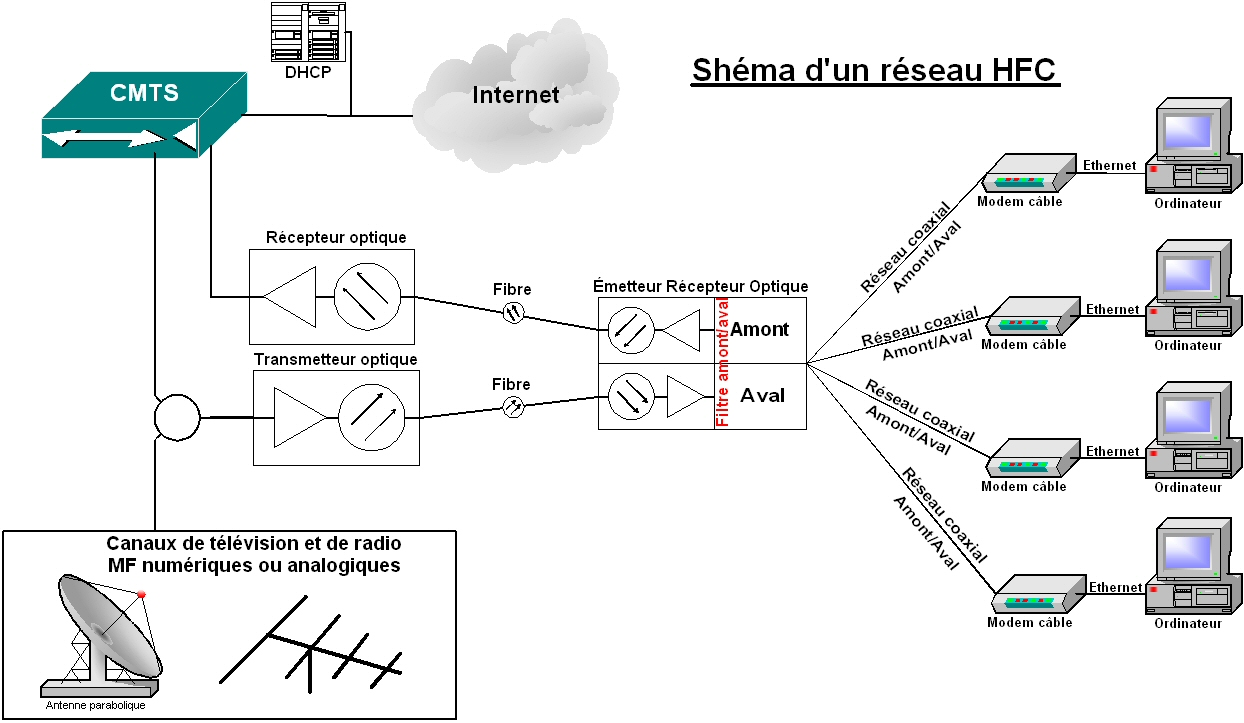 Diagram of a Hybrid Fibre-Coaxial (HFC) network